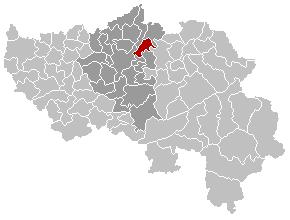 Map, municipality belgium Blégny